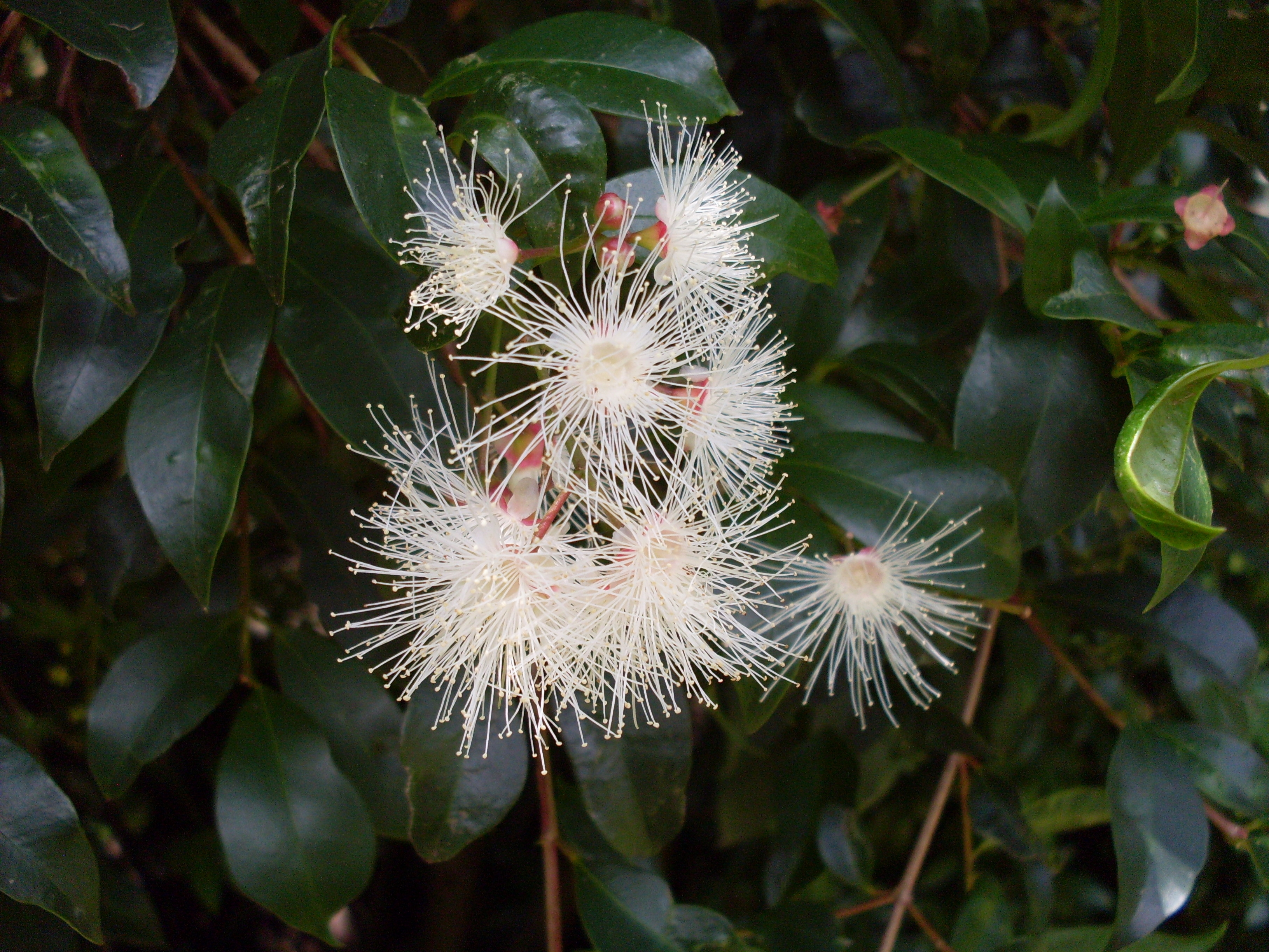 Lillypilly, possibly Syzygium paniculatum. Gerroa NSW Australia, February 2011.